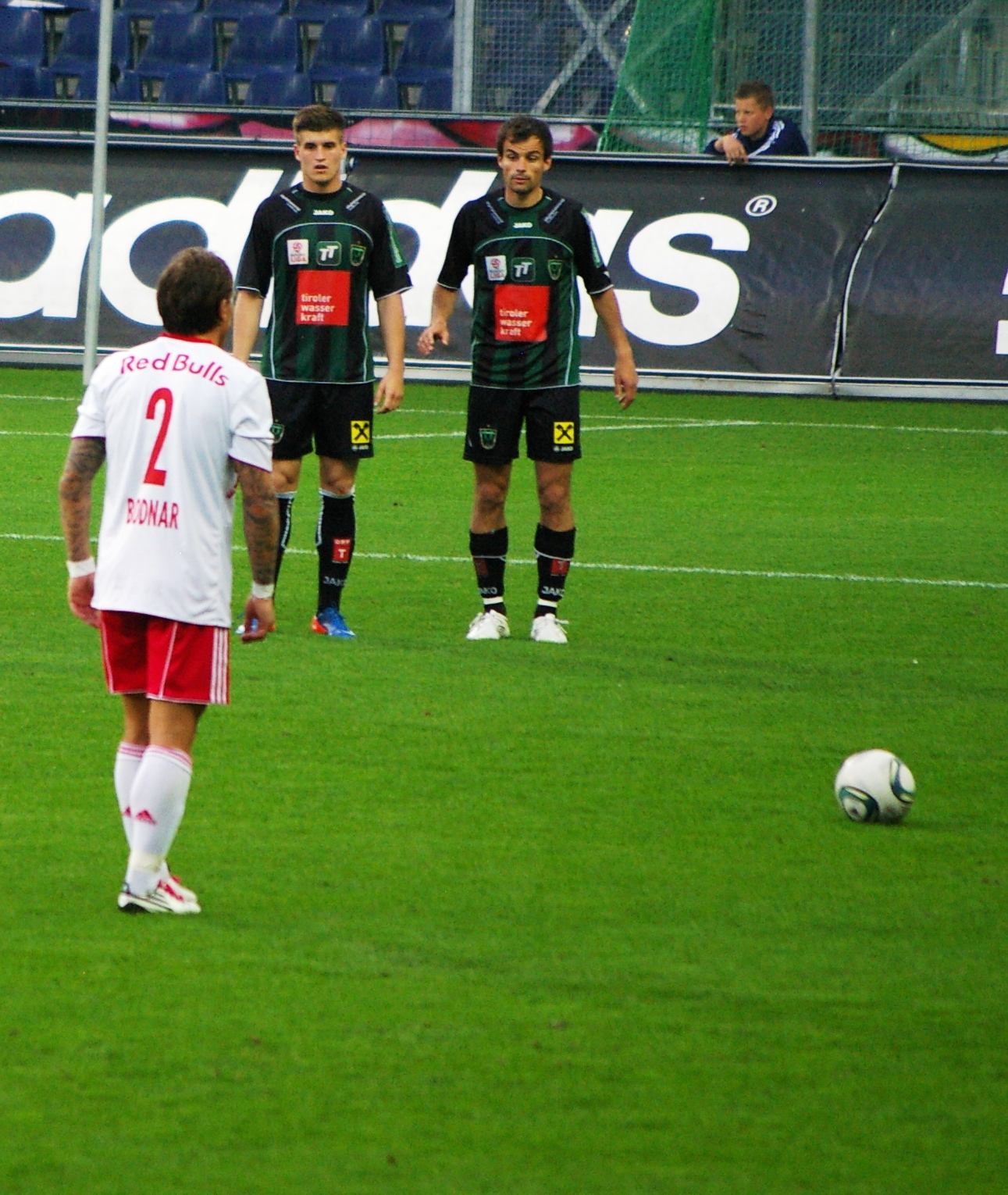 league match